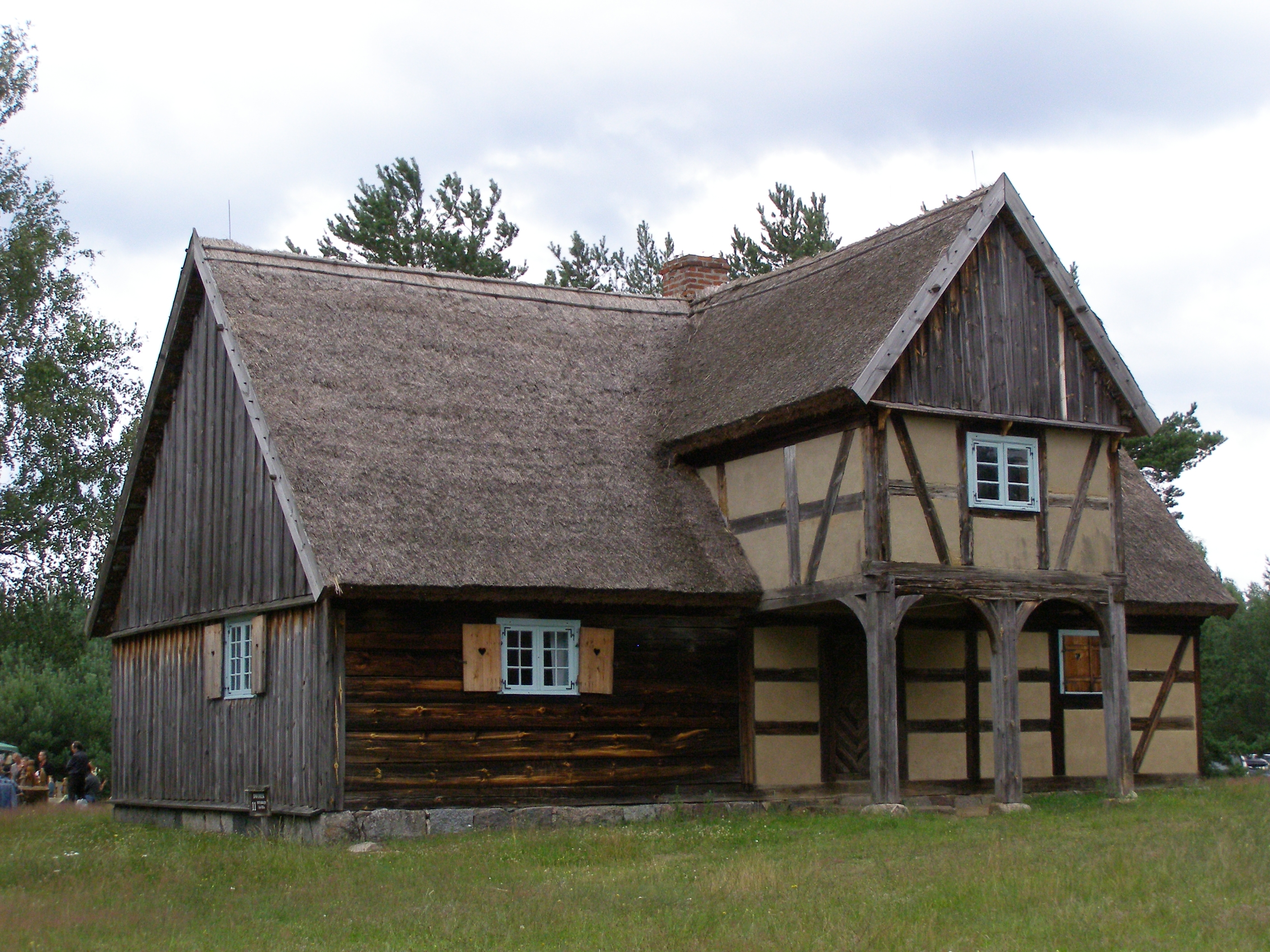 Wdzydze Kiszewskie - Kashubian Ethnographic Park